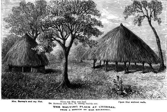 February 1862: The halting place at Chibisas of Anne Mackenzie and Elizabeth Mary Tudway Burrup. From a sketch by Miss Mackenzie, which appeared in an 1878 publication.